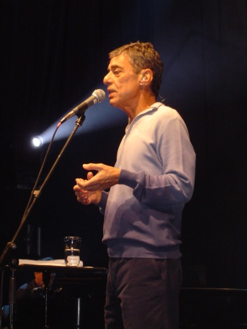 Chico Buarque performing in 2007